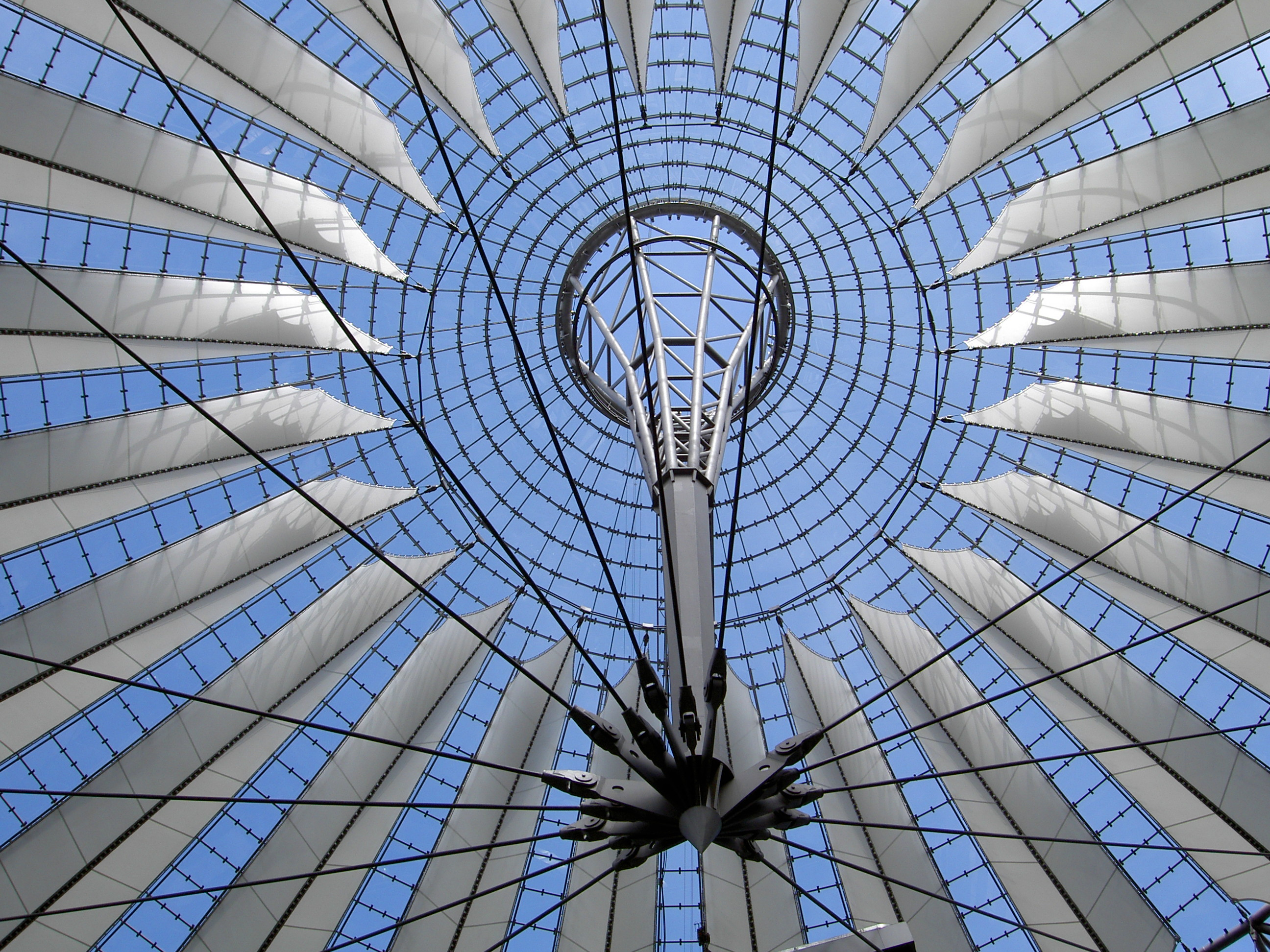 Roof of the Sony Center